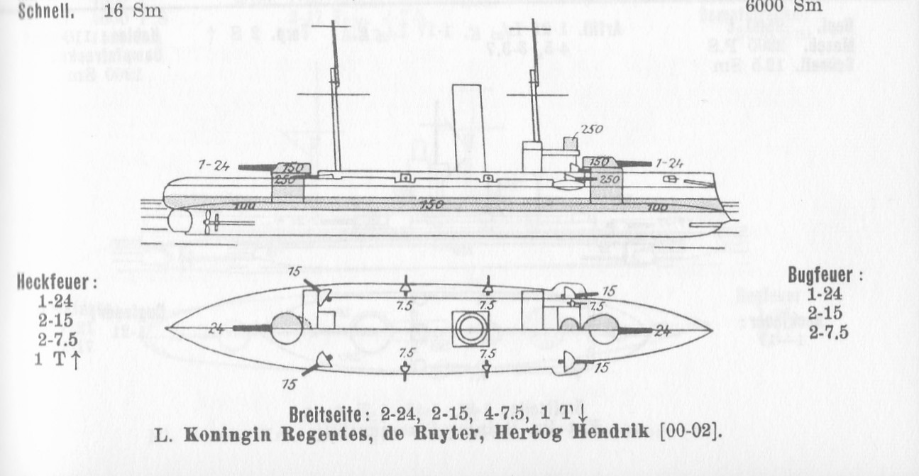 Plan of the Dutch coastal defence ship Koningin Regentes.